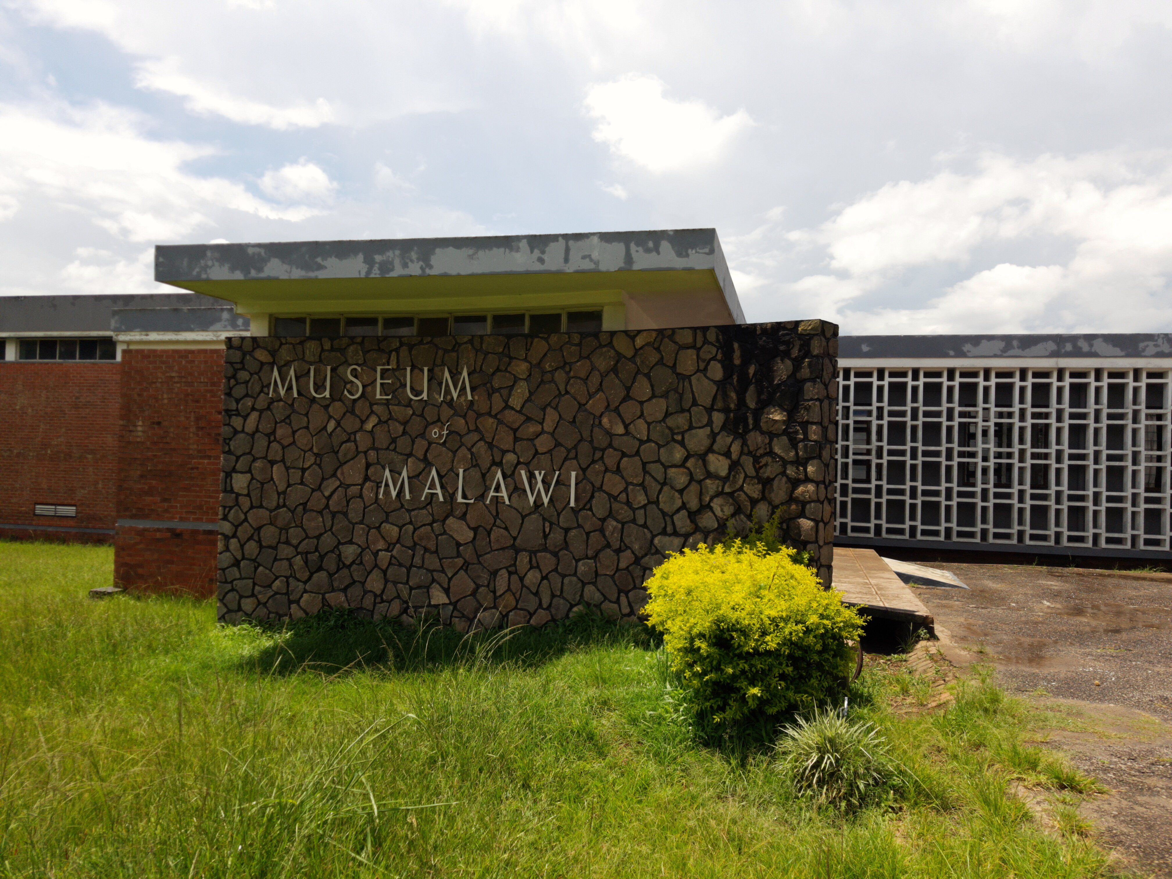 Museum of Malawi in Blantyre, Malawi